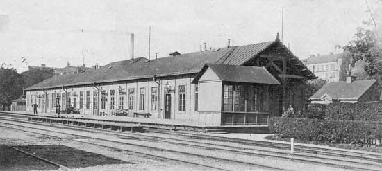 Photo of the Stockholm Södra trainstation from a 1904 postcard